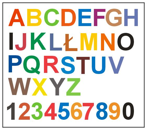 Real example of synaesthesia